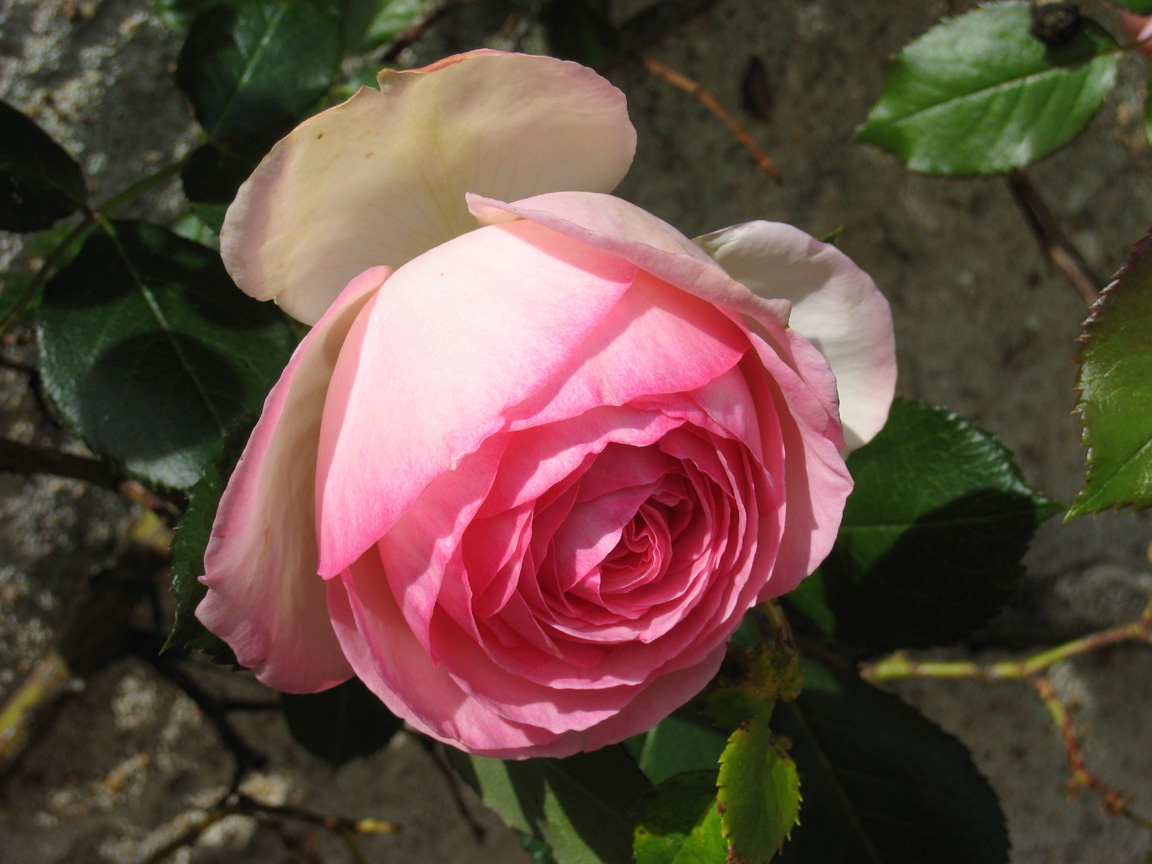 Sort of roses named Pierre de Ronsard